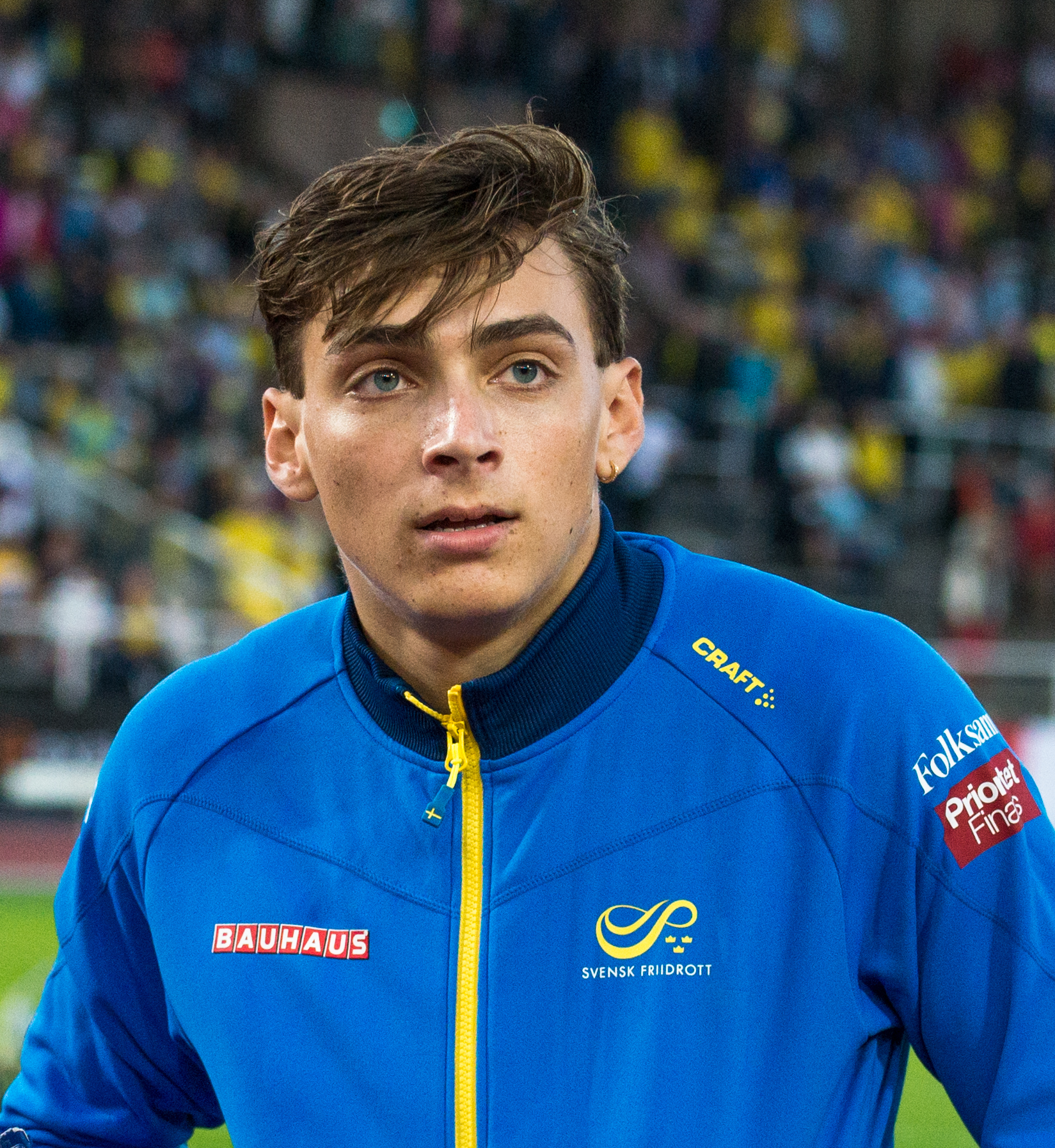 Armand Duplantis during the Finland-Sweden athletics international 2019 at the Stockholm Stadium in August 2019.